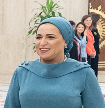 First Lady of Egypt Entissar El-Sisi on Saturday, Oct. 6, 2018, at the Ittihadiya Palace in Cairo.